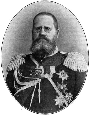 Glazov, Vladimir Gavrilovich